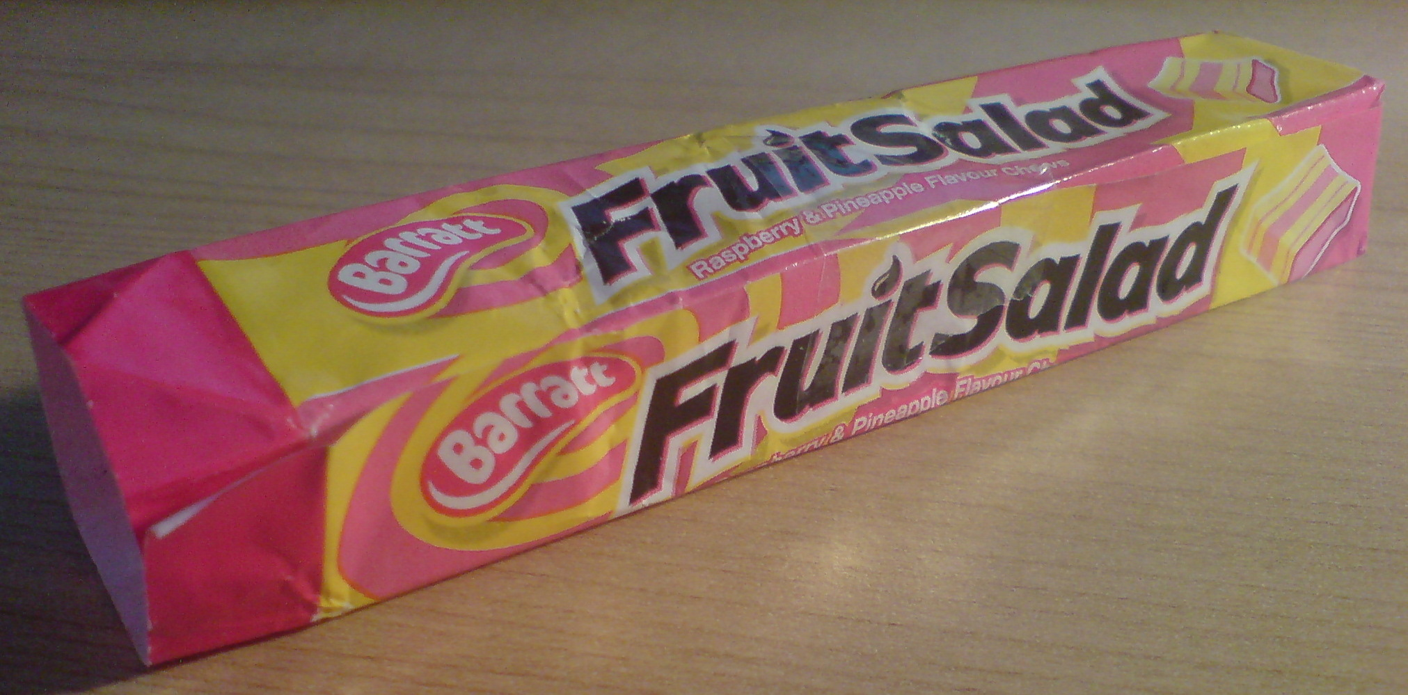 A packet of Fruit Salad.